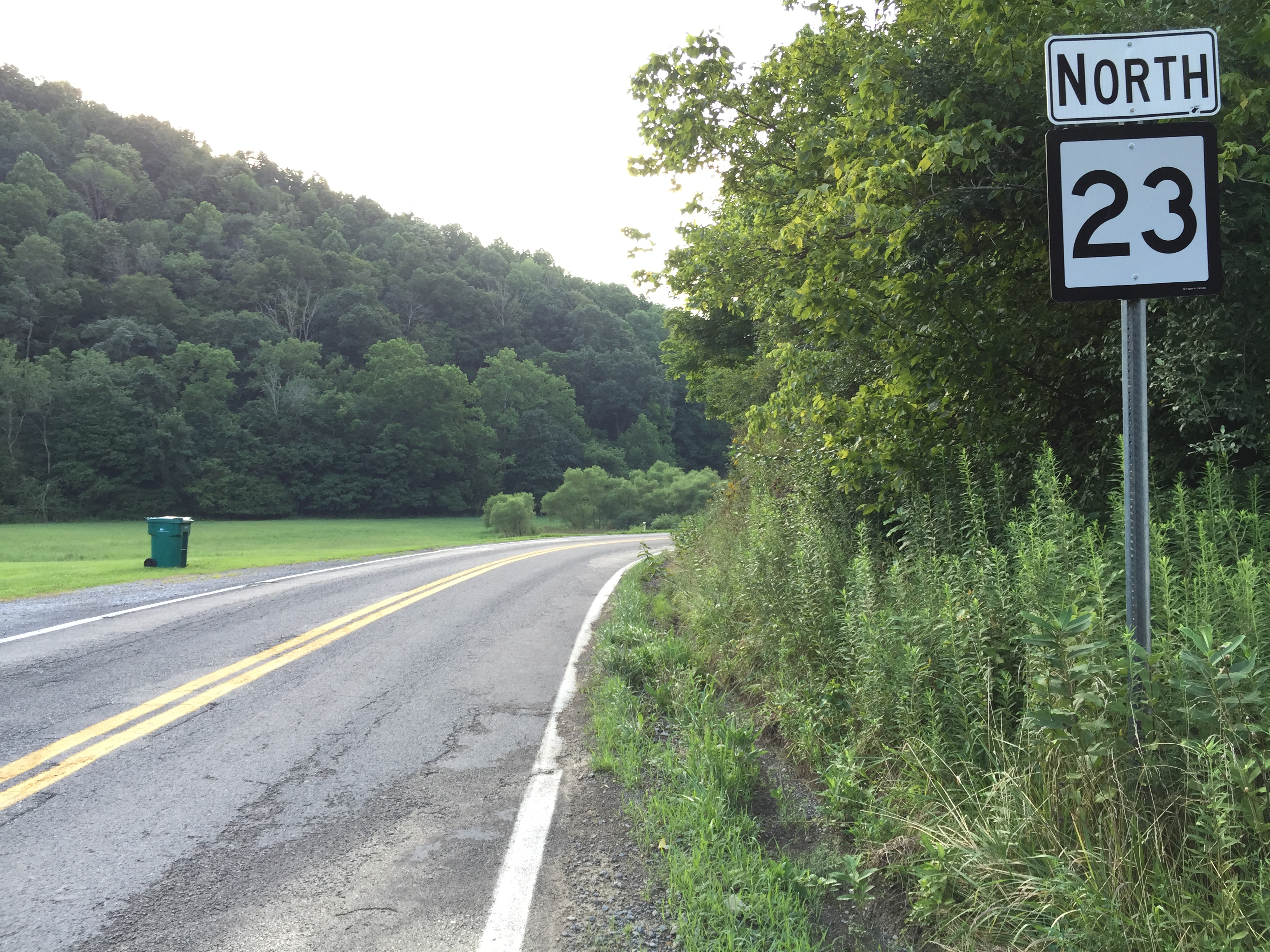 View north along West Virginia State Route 23 just north of Roundbottom Road (Doddridge County Route 55/10) in Sedalia, Doddridge County, West Virginia